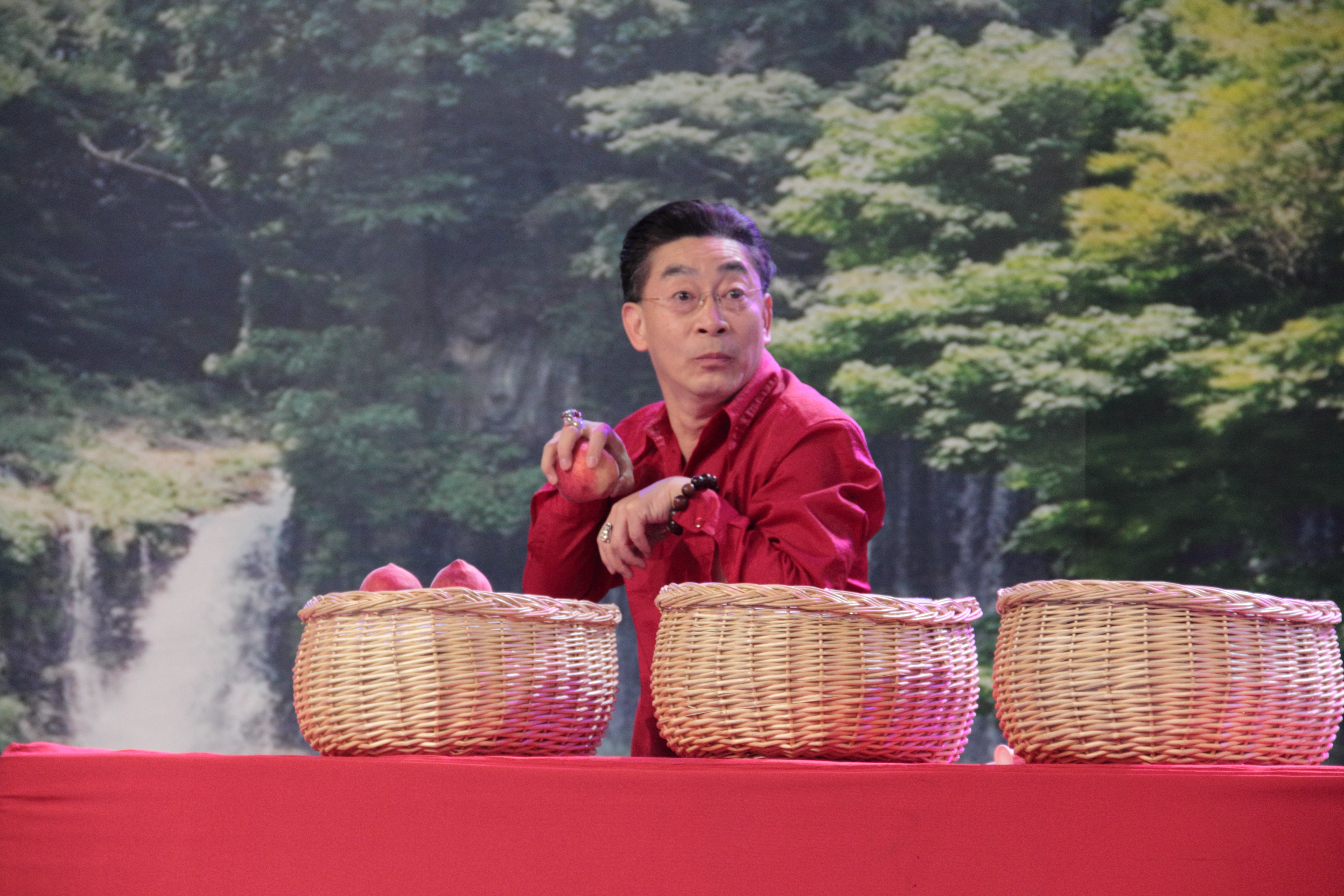 This photo was taken on the studio of Chinese entertainment show Star Reunion. In this episode, four actors of the popular TV drama Journey to the West(1986) were invited.中文（中国大陆）: 这张图片于河北卫视《明星同乐会》的演播室拍摄，这集邀请了1986年电视剧《西游记》的演员和导演。